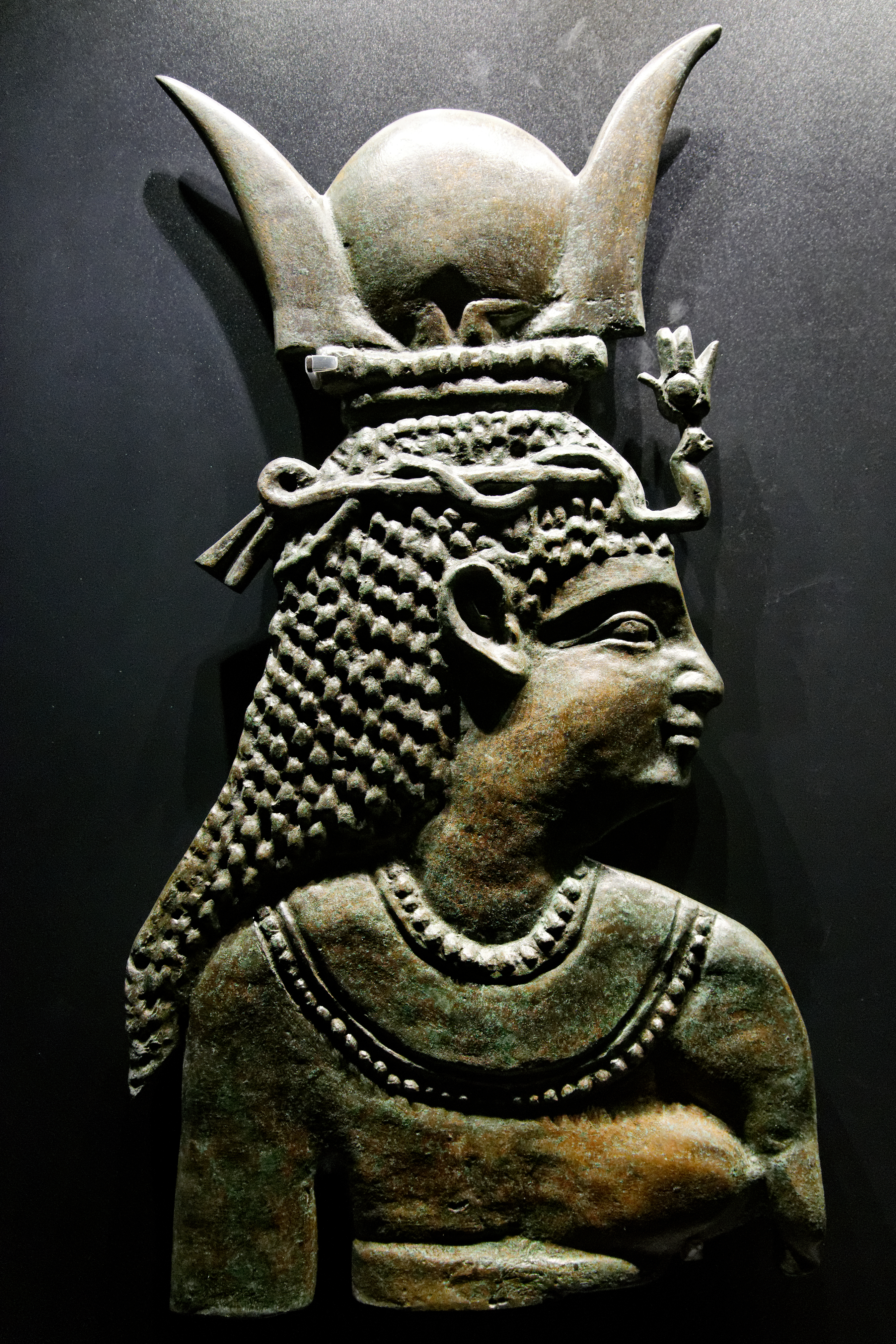 Relief with Isis.